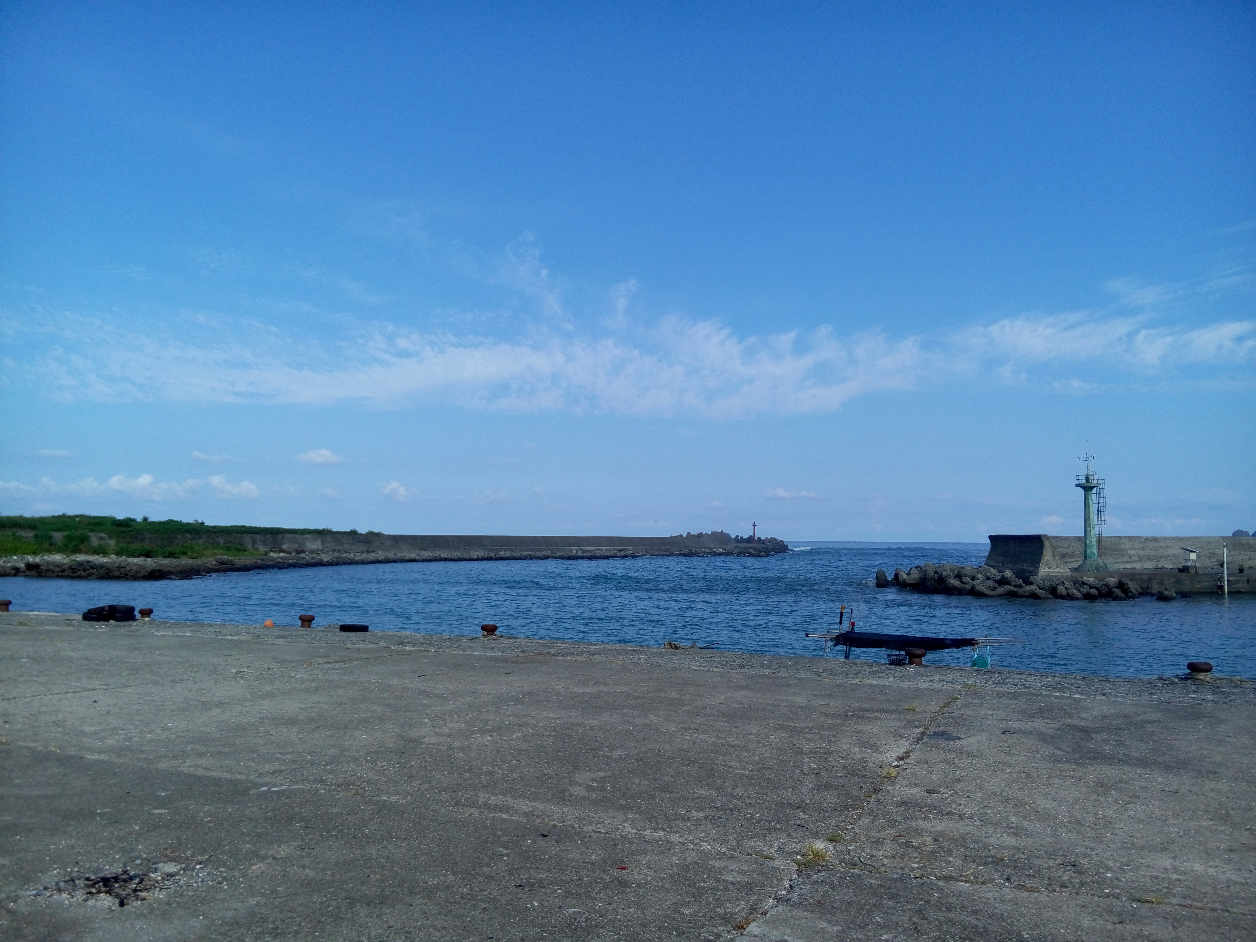 Taiwan Taitung County Xiao-Gun Port